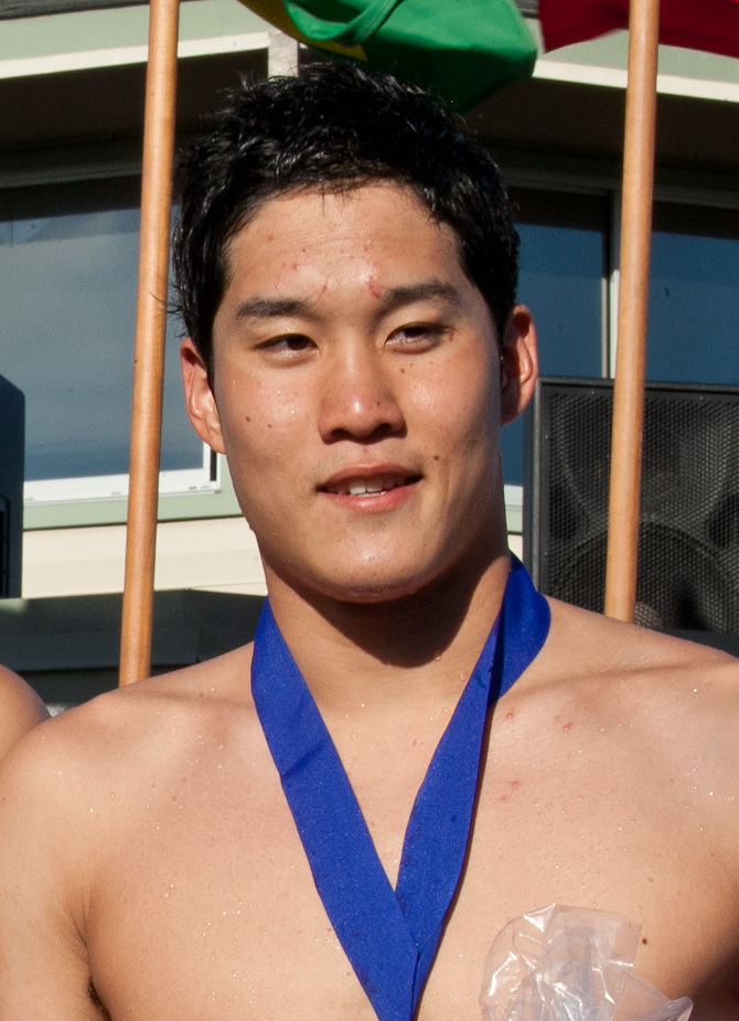 Ryan Napoleon, Taehwan Park and Yuki Kobori at the 2012 Santa Clara Grand Prix. For publication rights, contact JD Lasica at .